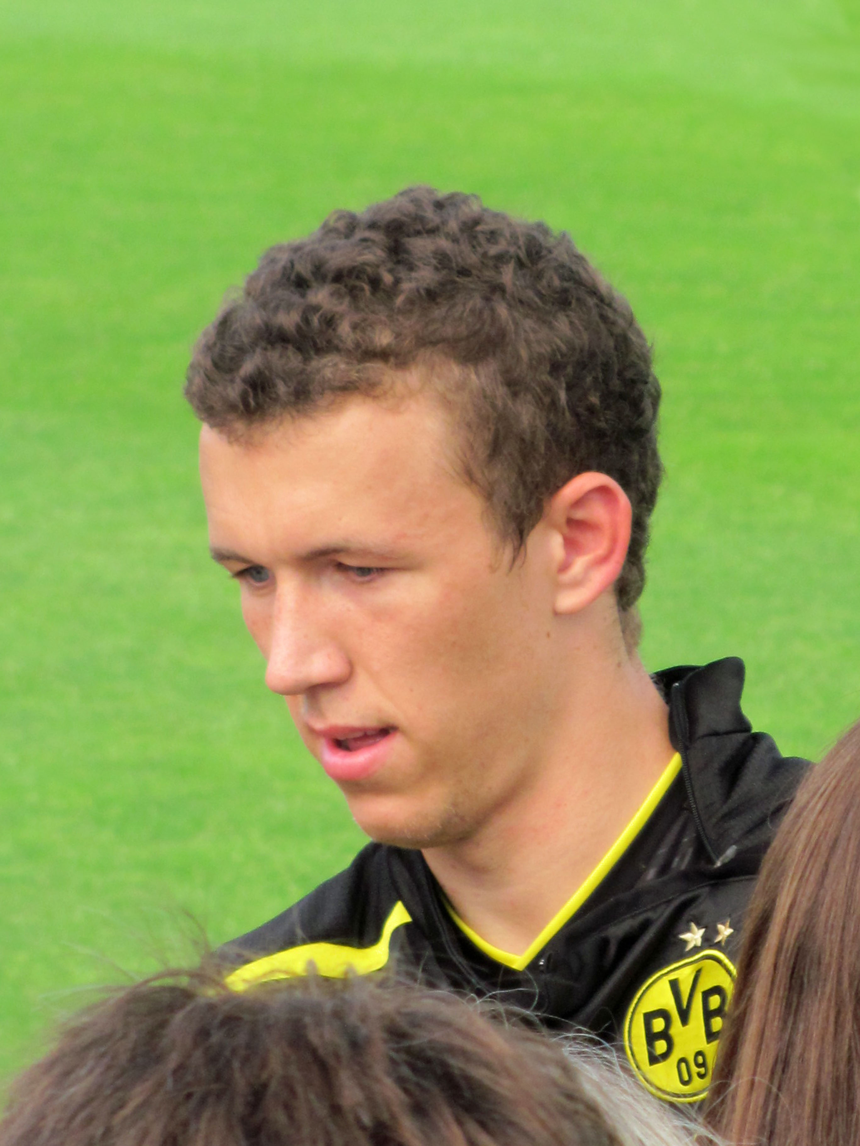 Ivan Perisic